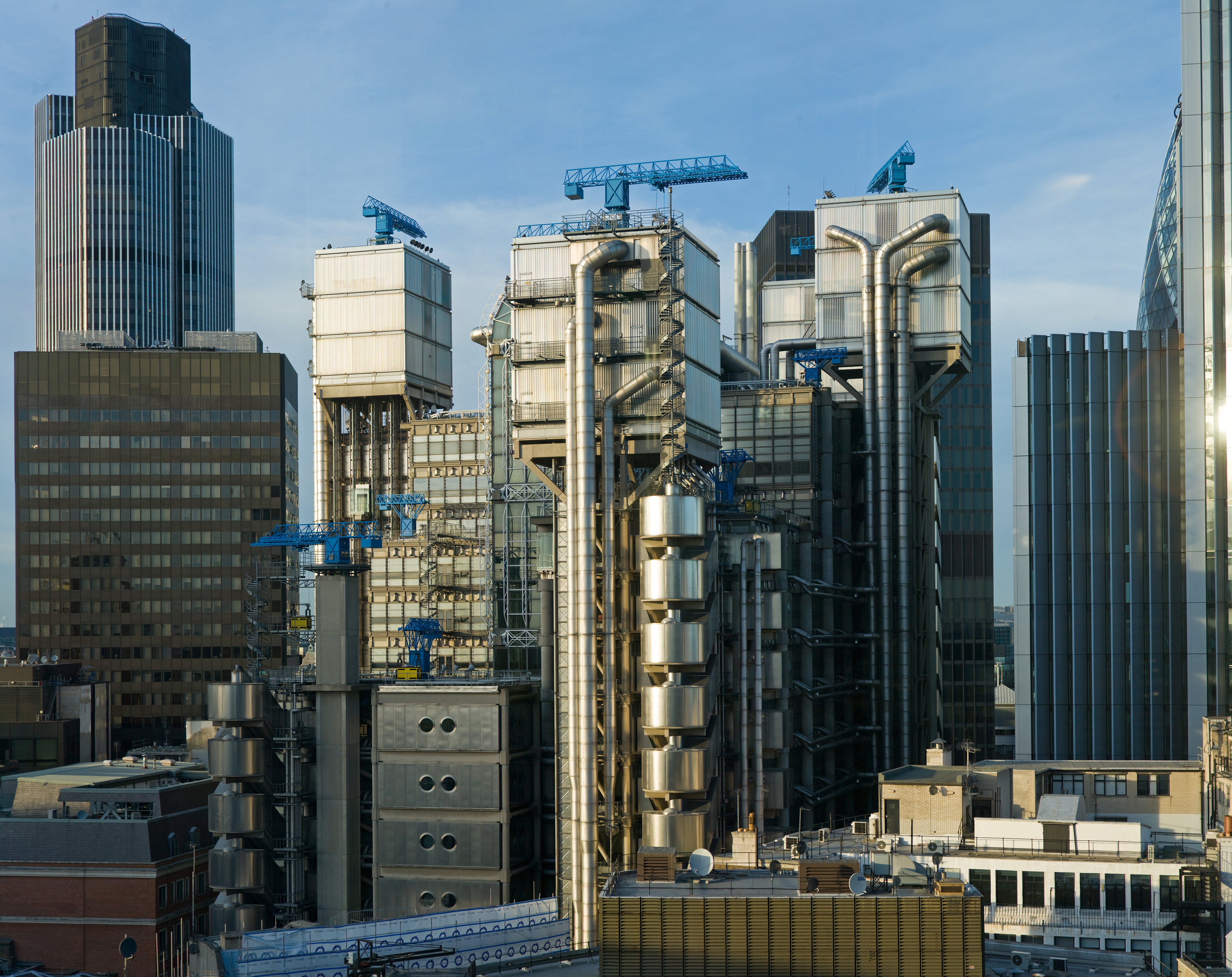 A mosaic image of the Lloyds Building in London, taken by myself with a Canon 5D and 24-105mm f/4L IS lens from the 9th floor of Planatation Place building in London, England